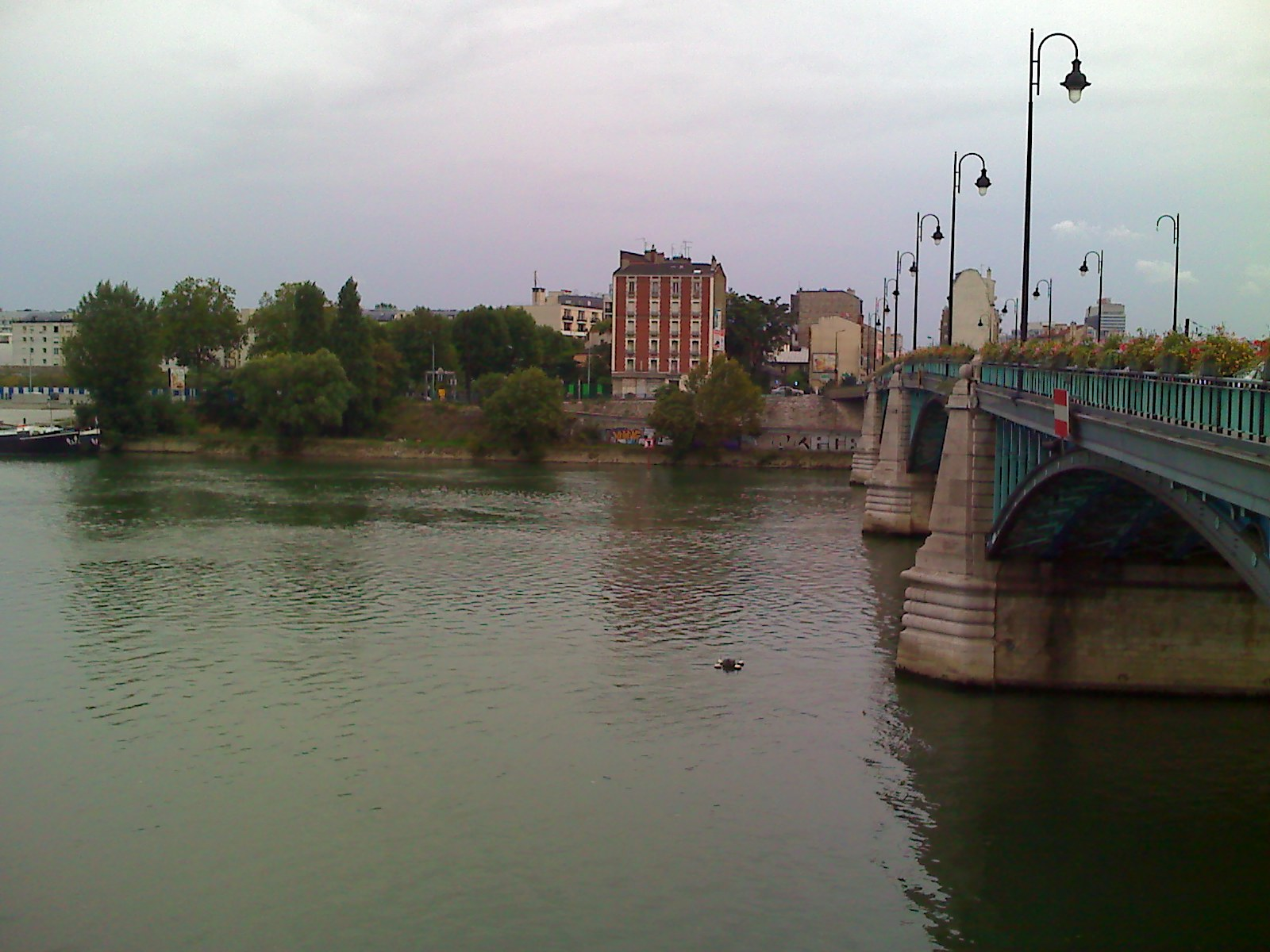 The North-Western city limits of Clichy-la-Garenne at the Quai de Clichy. To the left is the bridge of Asnières.